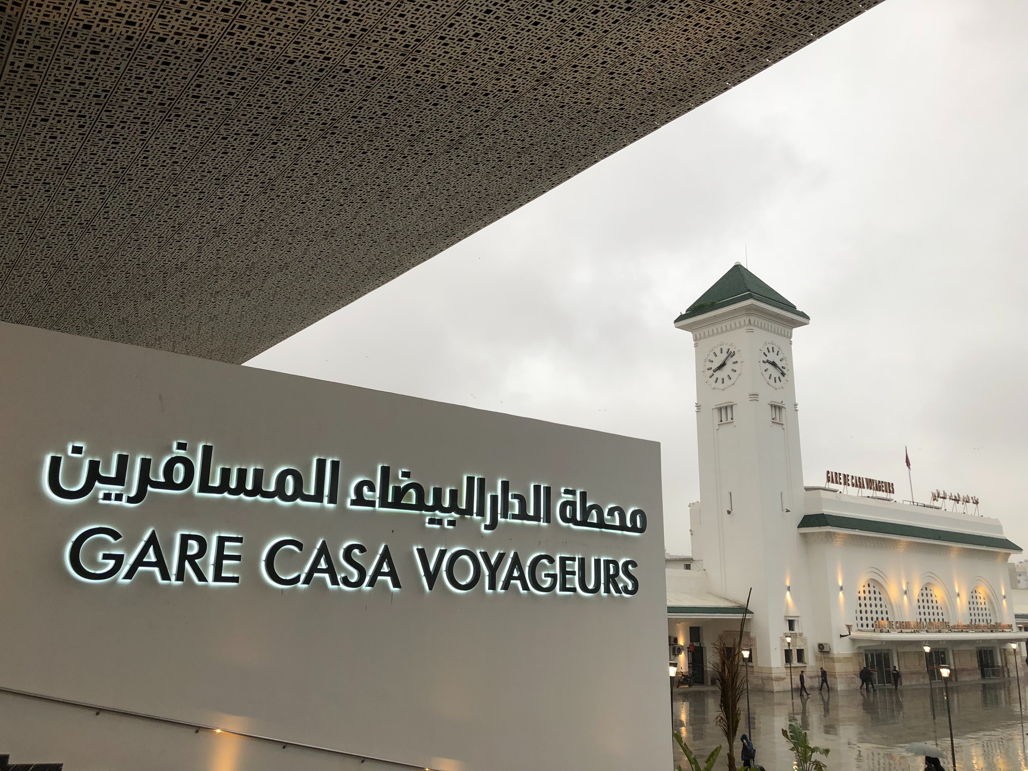 New additional building at Casa Voyageurs train station in Casablanca, Morocco